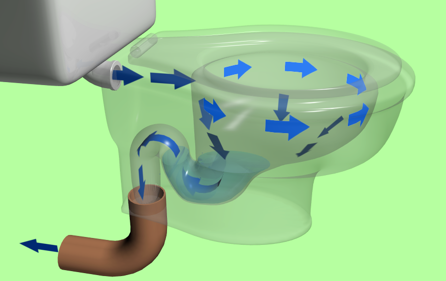 toilet wc